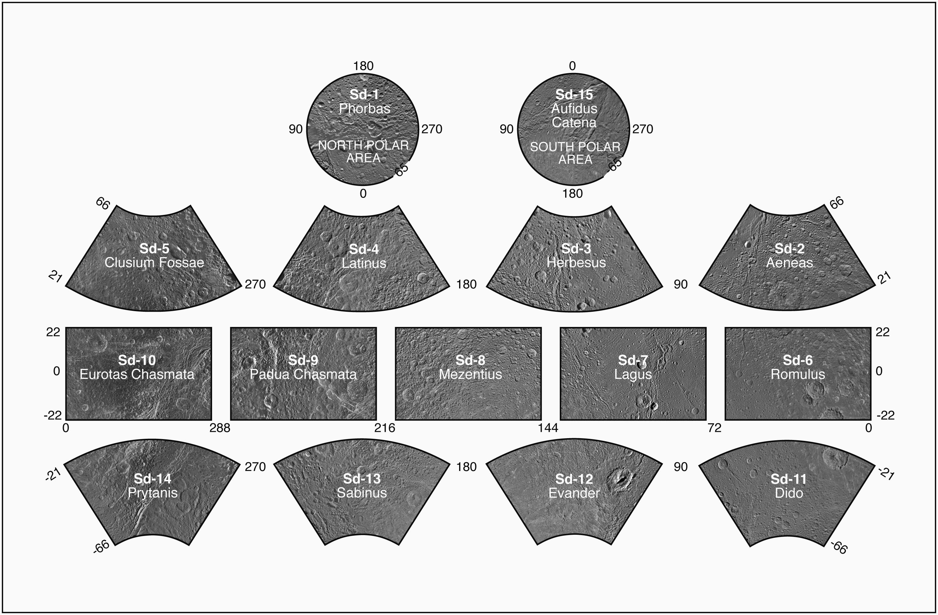 Presented here is a complete set of cartographic map sheets from a high-resolution Dione atlas, a project of the Cassini Imaging Team. The map sheets form a 15-quadrangle series covering the entire surface of Dione at a nominal scale of 1:1,000,000. An index for the atlas is included here, along with an unlabeled version of each terrain section. The map data was acquired by the Cassini imaging experiment. The mean radius of Dione used for projection of the maps is 562.53 kilometers (349.54 miles). Names for features have been approved by the International Astronomical Union (IAU). This atlas is an update to the version released in August 2008 (see PIA08418). The Cassini Solstice Mission is a joint United States and European endeavor. The Jet Propulsion Laboratory, a division of the California Institute of Technology in Pasadena, manages the mission for NASA's Science Mission Directorate, Washington, D.C. The Cassini orbiter was designed, developed and assembled at JPL. The imaging team consists of scientists from the US, England, France, and Germany. The imaging operations center and team lead (Dr. C. Porco) are based at the Space Science Institute in Boulder, Colo. For more information about the Cassini Solstice Mission visit and Credit: NASA/JPL-Caltech/Space Science Institute Released: September 28, 2011 (PIA 12827)